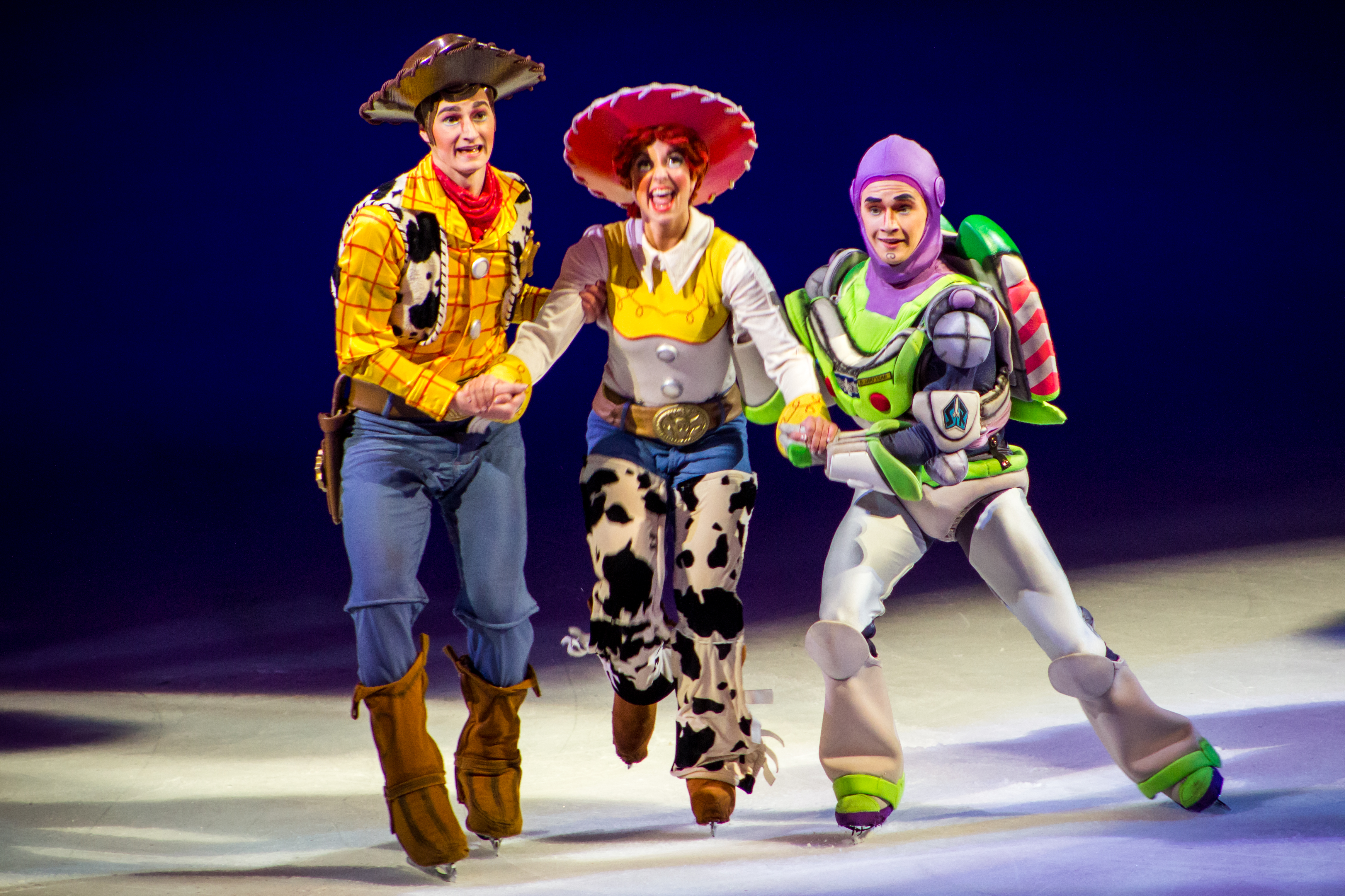 Disney on Ice - Sheriff Woody, Jessie and Buzz Lightyear in 2012.